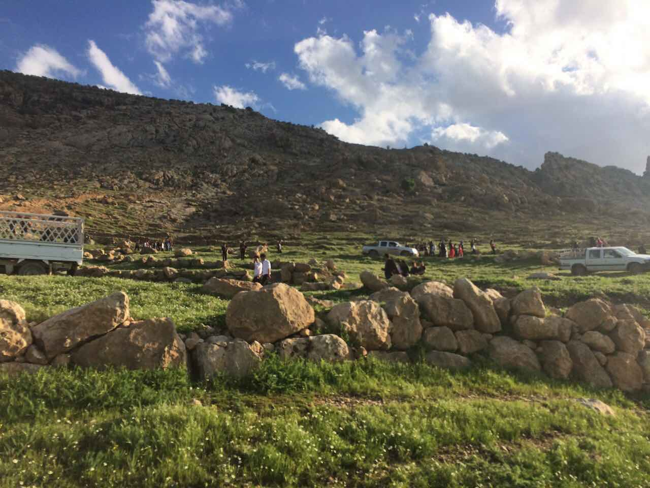 sinjar